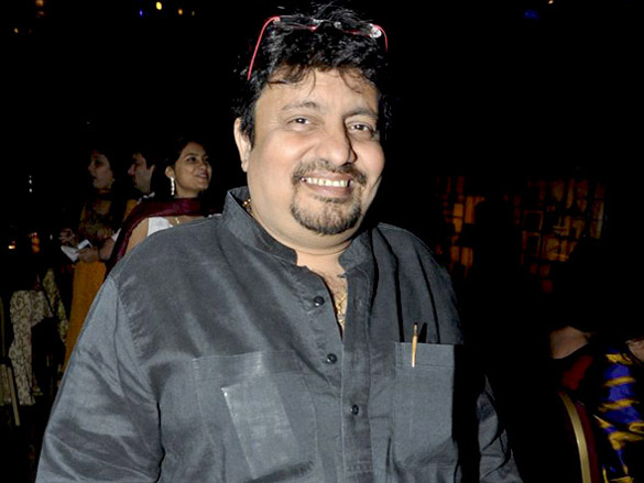 Neeraj Vora